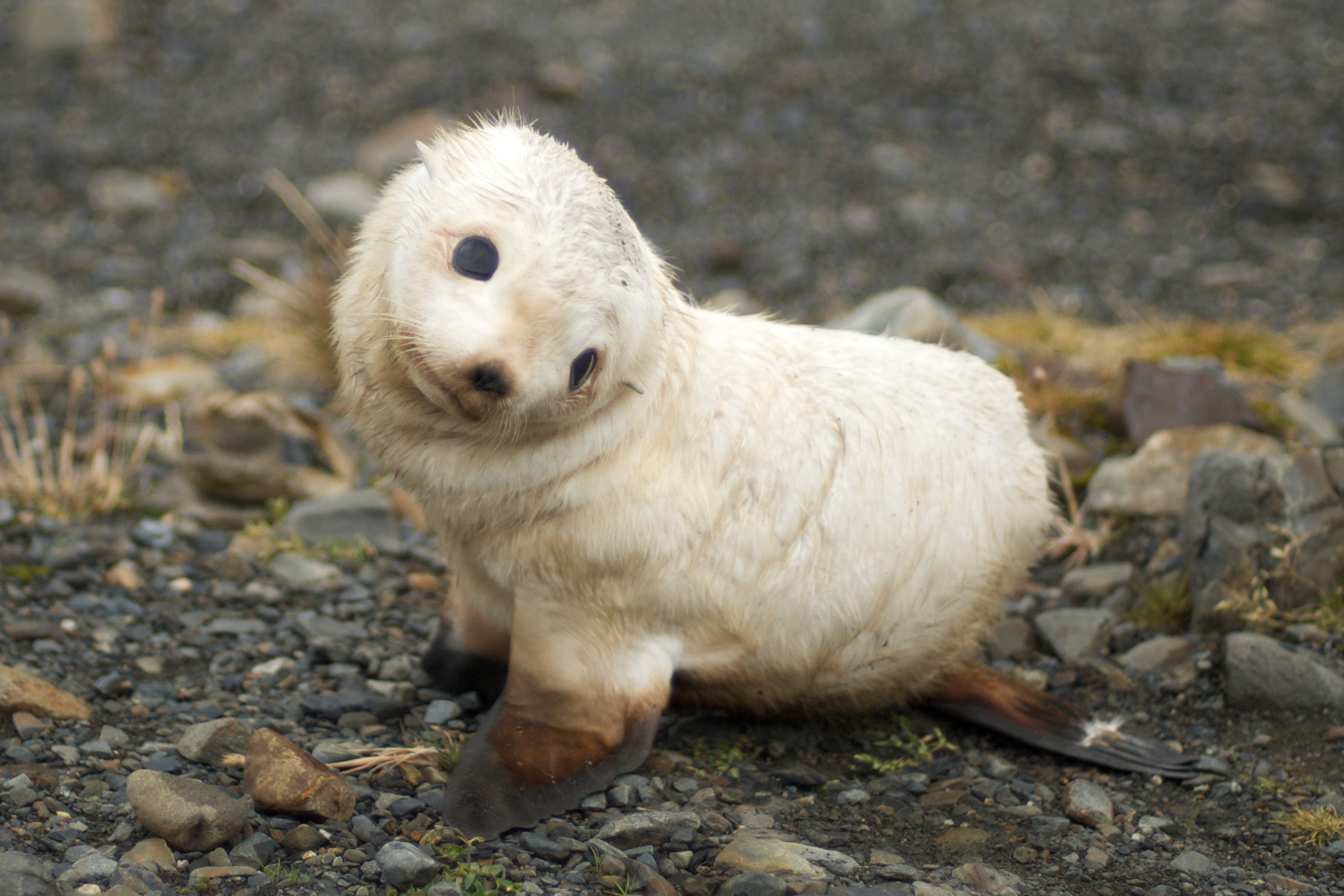 We came across this little white baby fur seal. Pretty cute, eh? South Georgia. March 2009.